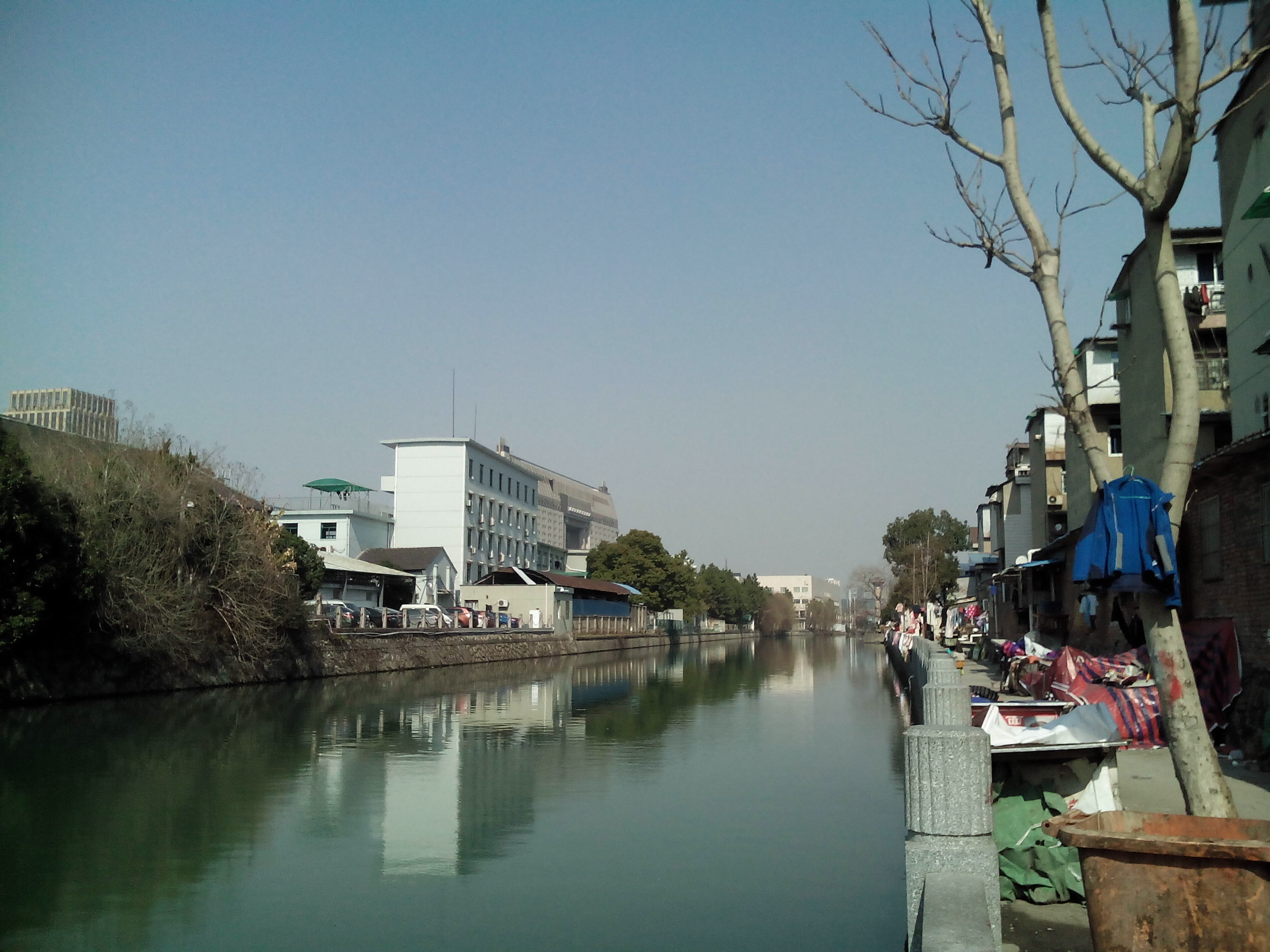 201502 Tiesha River in Shibanqiao, the building left side the river are owned by Shanghai Railway Bureau